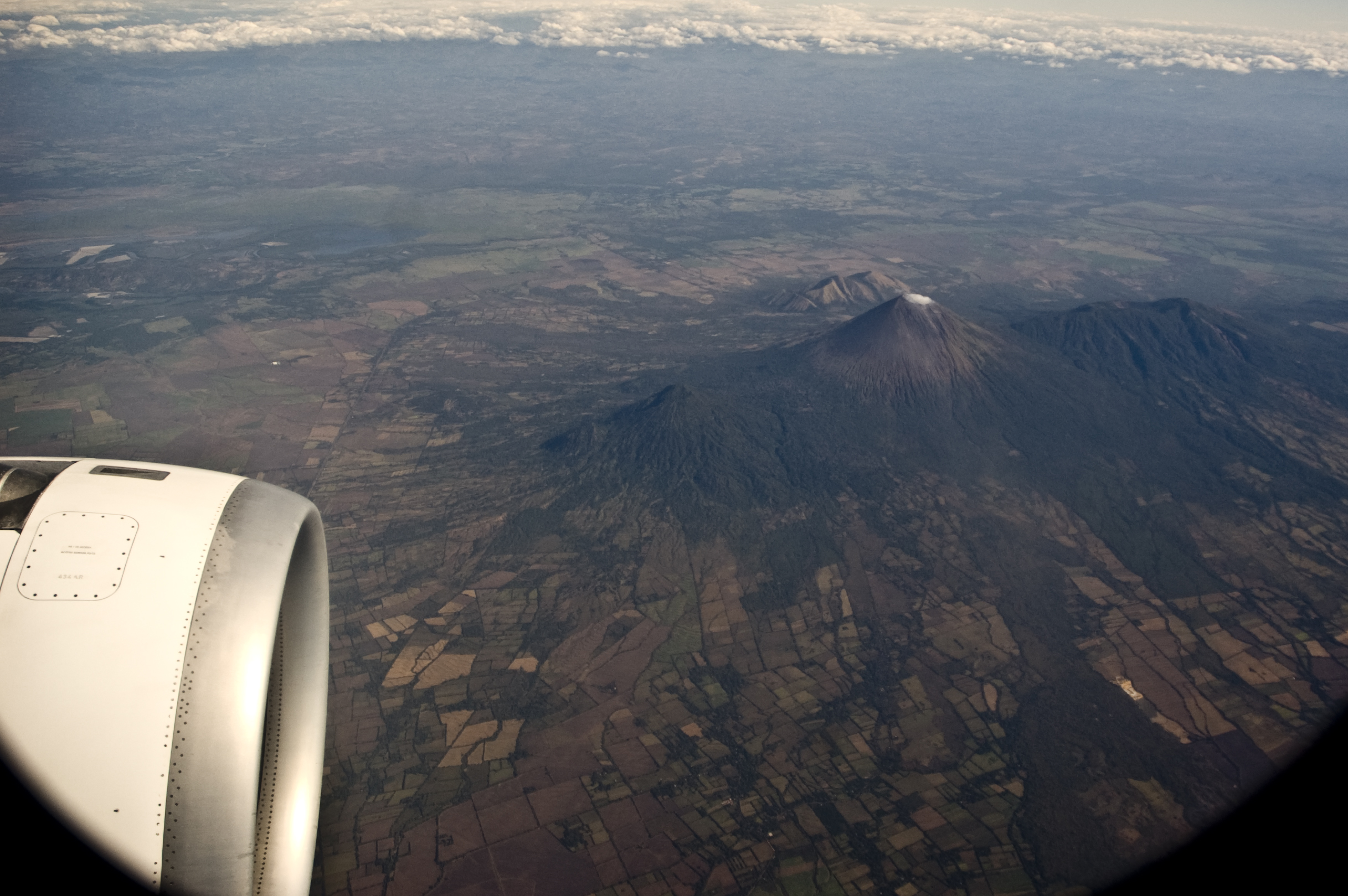 The San Cristóbal volcanic complex in Nicaragua, looking north-west. The complex comprises five volcanoes; from left to right: El Chonco, Moyotepe (background), San Cristóbal (foreground, with snow in summit crater), Volcán Casita and La Pelona. (Move the cursor over the image to see annotated name tags of all the volcanoes.)